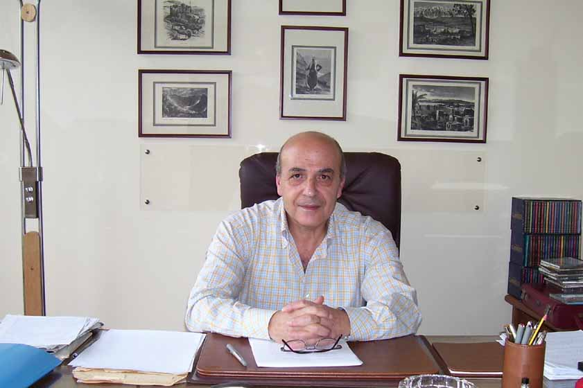 Zouheir Chokr (b1947 - ) (Arabic: زهير شكر) is the President of the Lebanese University.